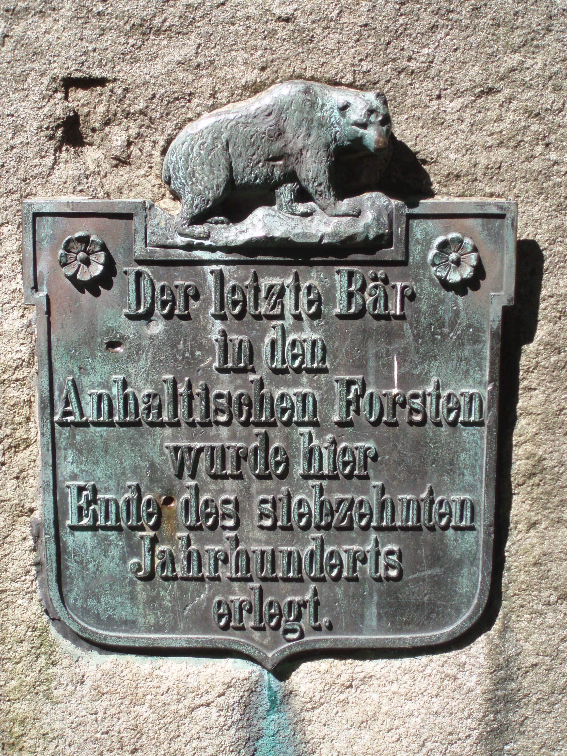 The plaque on the Bear Monument in the Harz mountains of Germany